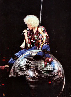 Photo taken during one of the concerts in 1993